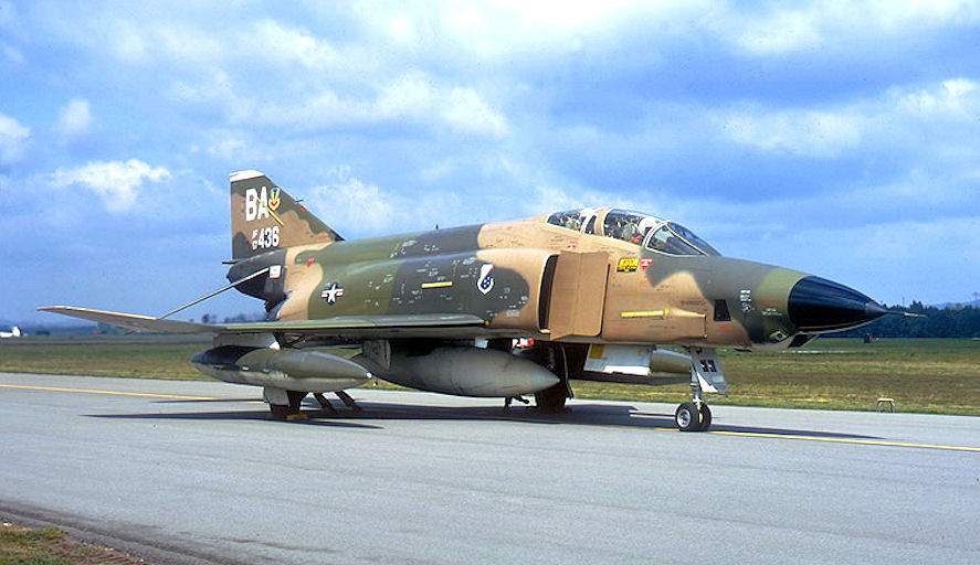 McDonnell Douglas RF-4C-33-MC Phantom 67-0436 12th TRS